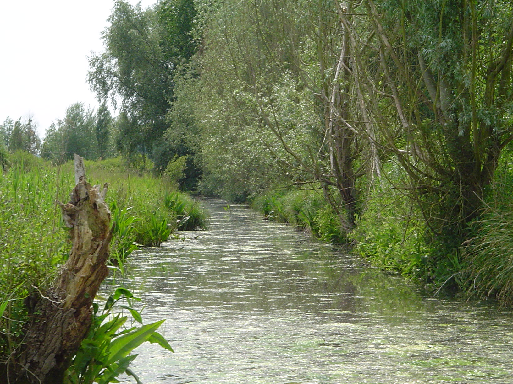 Audomarois Marsh, in French region of Pas-de-Calais